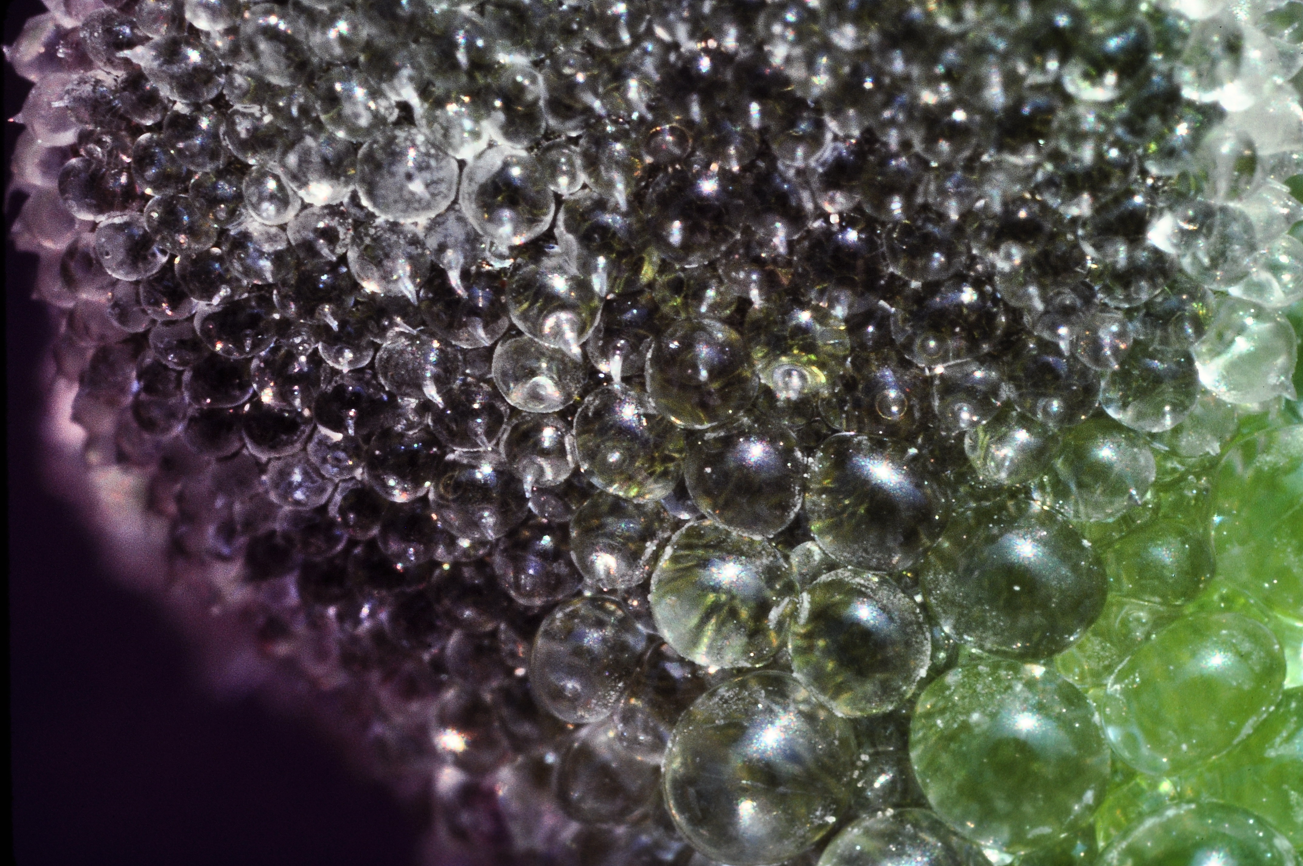 Iceplant